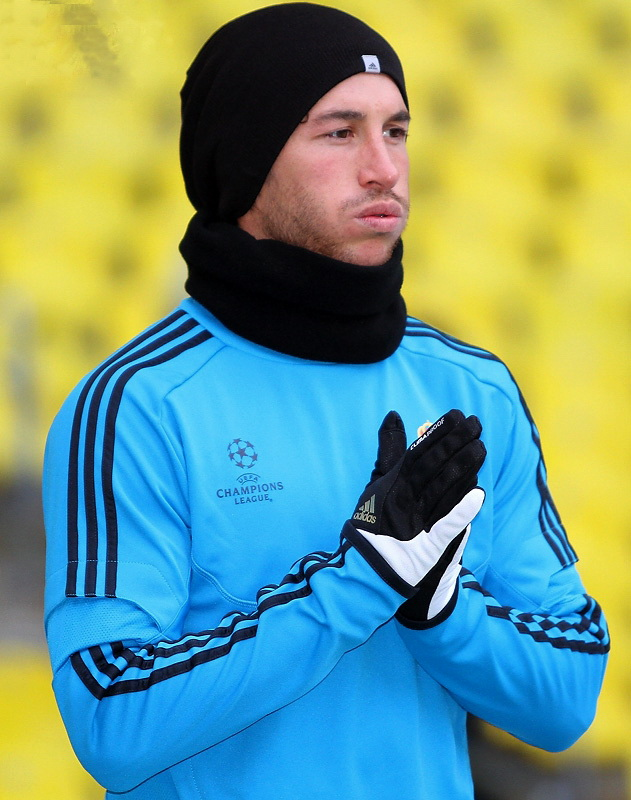 Sergio Ramos